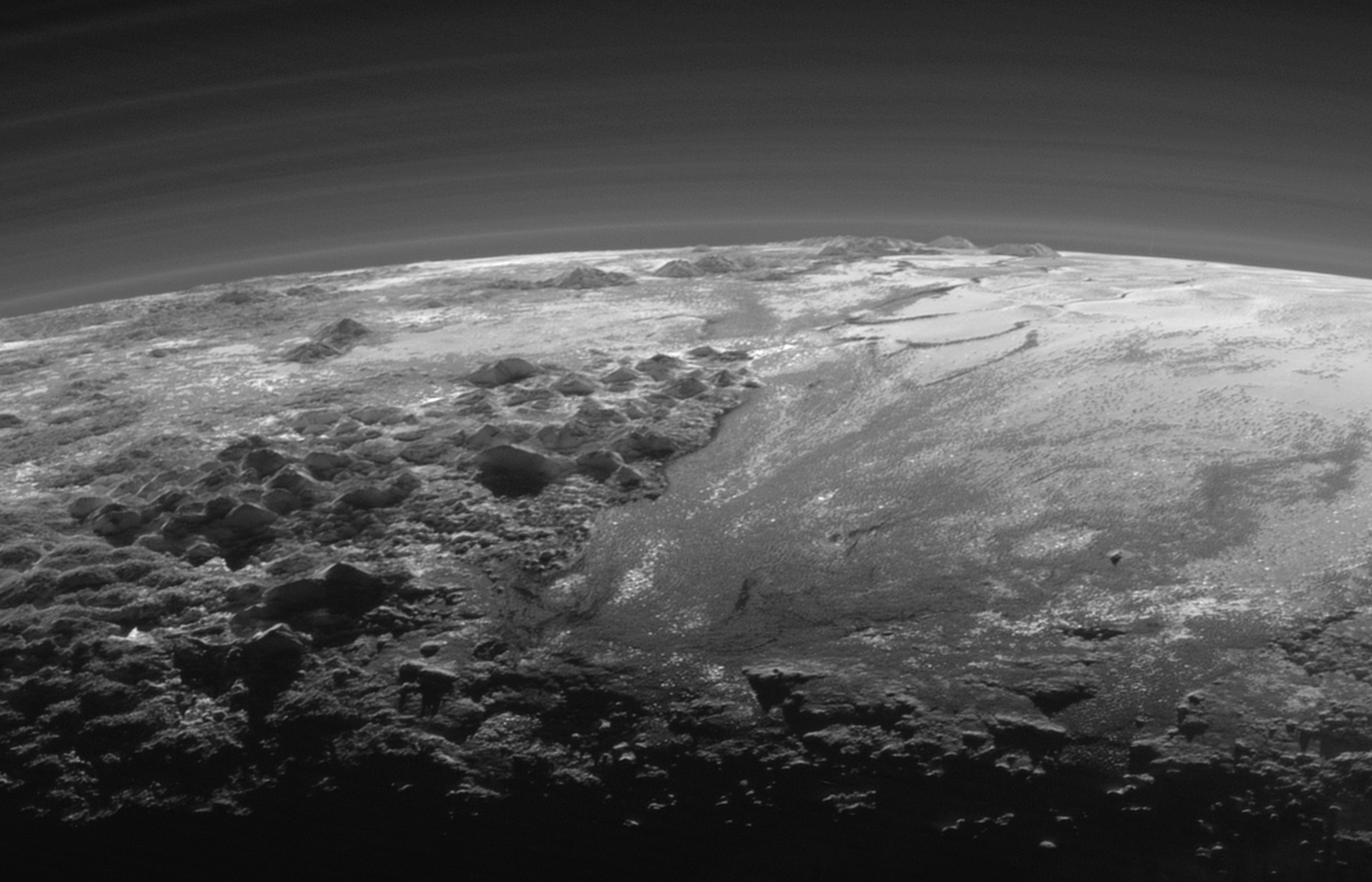 PIA19947: Closer Look: Majestic Mountains and Frozen Plains Just 15 minutes after its closest approach to Pluto on July 14, 2015, NASA's New Horizons spacecraft looked back toward the sun and captured a near-sunset view of the rugged, icy mountains and flat ice plains extending to Pluto's horizon. The smooth expanse of Sputnik Planitia (right) is flanked to the west (left) by rugged mountains up to 11,000 feet (3,500 meters) high, including the Tenzing Montes in the foreground and Hillary Montes on the skyline. The backlighting highlights more than a dozen layers of haze in Pluto's tenuous but distended atmosphere. The image was taken from a distance of 11,000 miles (18,000 kilometers) to Pluto; the scene is 230 miles (380 kilometers) across. The Johns Hopkins University Applied Physics Laboratory in Laurel, Maryland, designed, built, and operates the New Horizons spacecraft, and manages the mission for NASA's Science Mission Directorate. The Southwest Research Institute, based in San Antonio, leads the science team, payload operations and encounter science planning. New Horizons is part of the New Frontiers Program managed by NASA's Marshall Space Flight Center in Huntsville, Alabama.